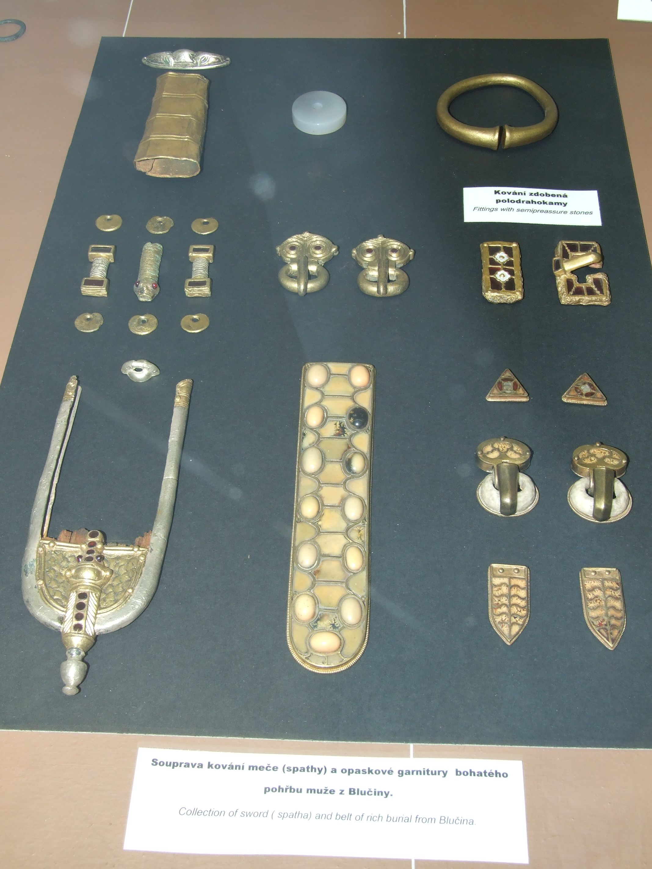 Prehistoric Times of Bohemia, Moravia and Slovakia, National Museum in Prague. Collection of sword (spatha) and belt of rich burial from Blučina; Migration Period